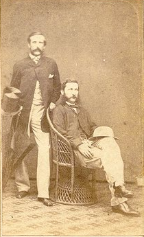 Thomas Bradley Harris and Joseph William Torrey, founders of the US colony "Ellena" on the Island of Borneo